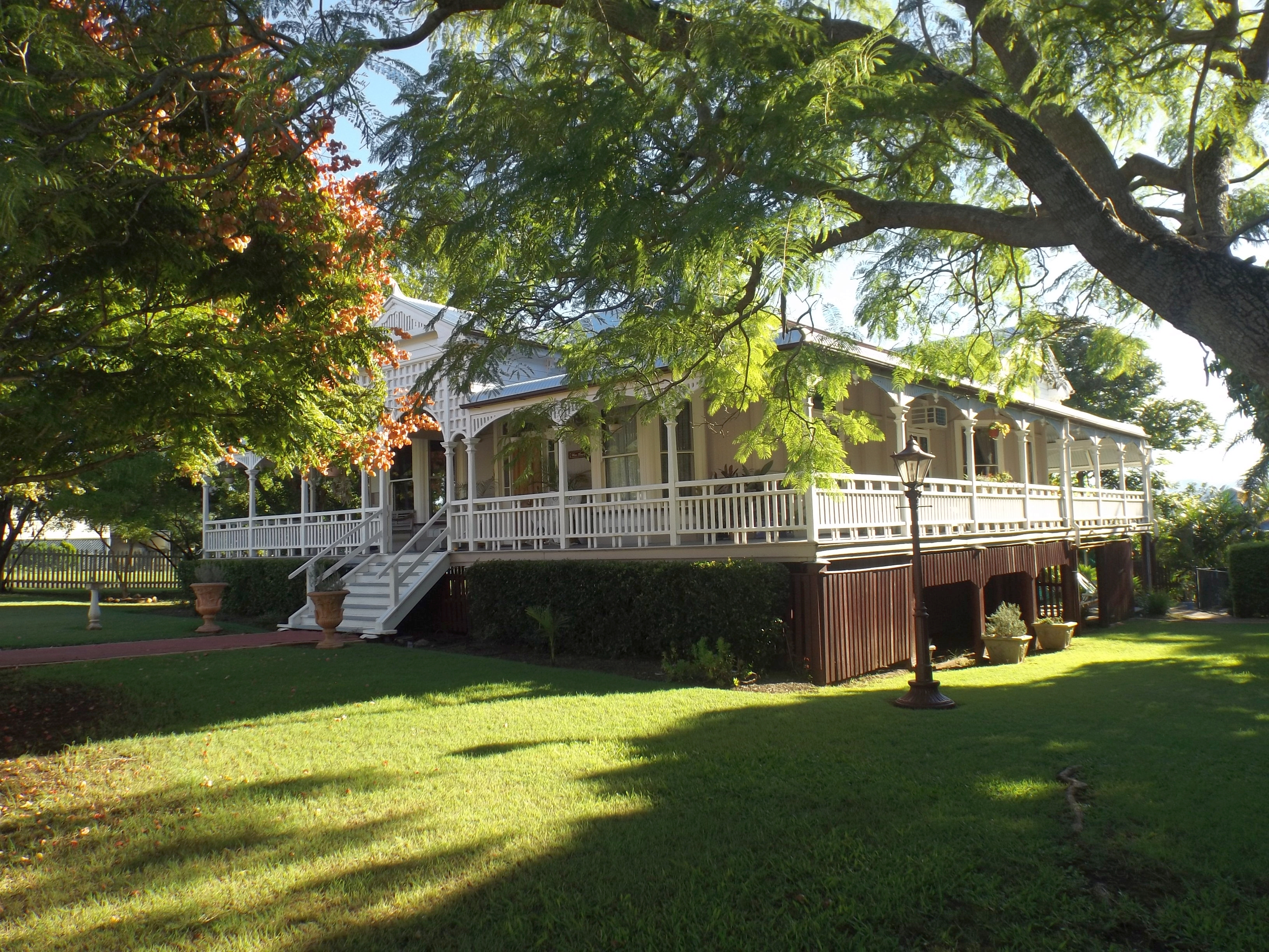 Photo of Wiss House at Kalbar, Scenic Rim Region, Queensland, Australia.